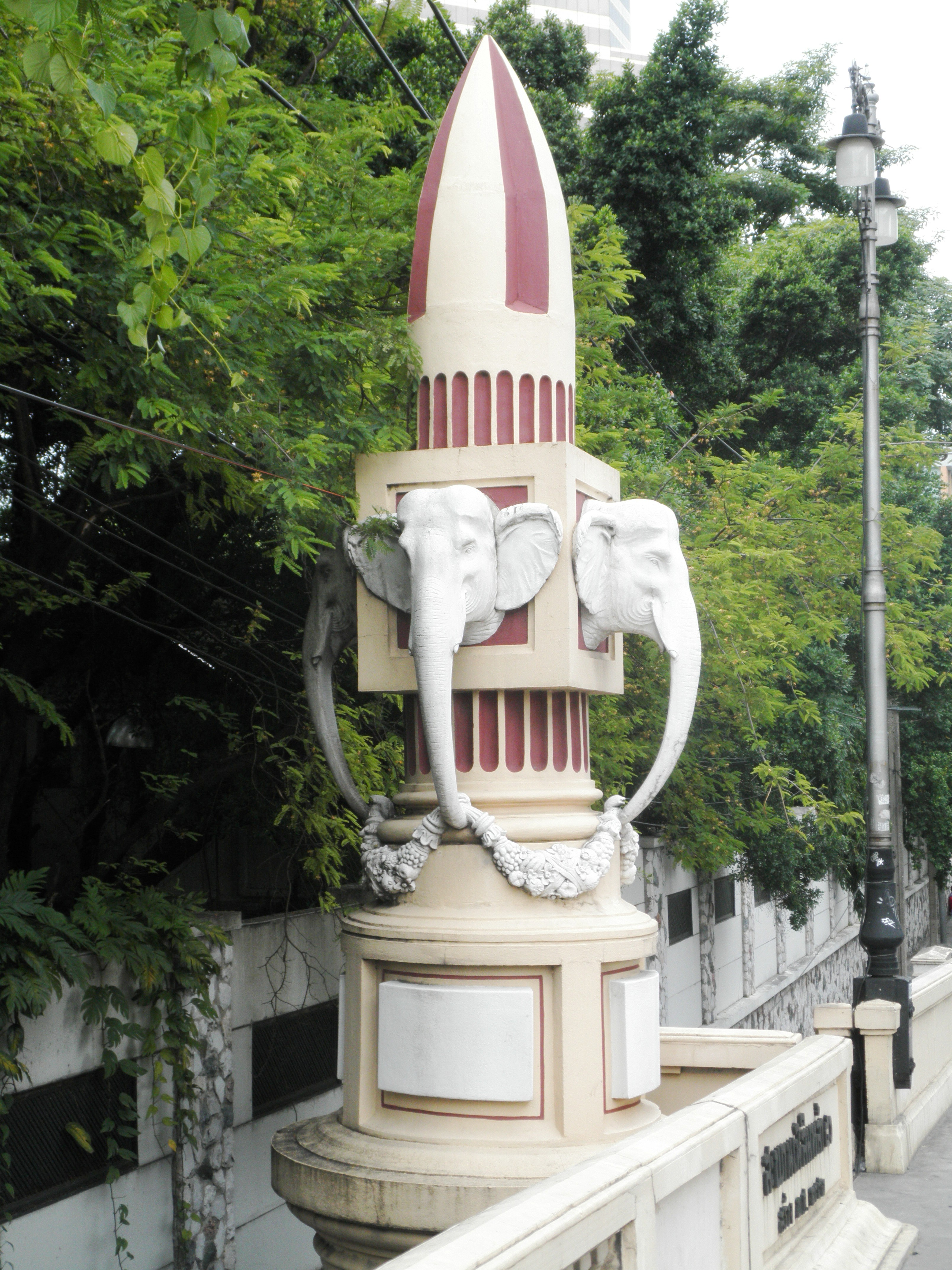 Bridge